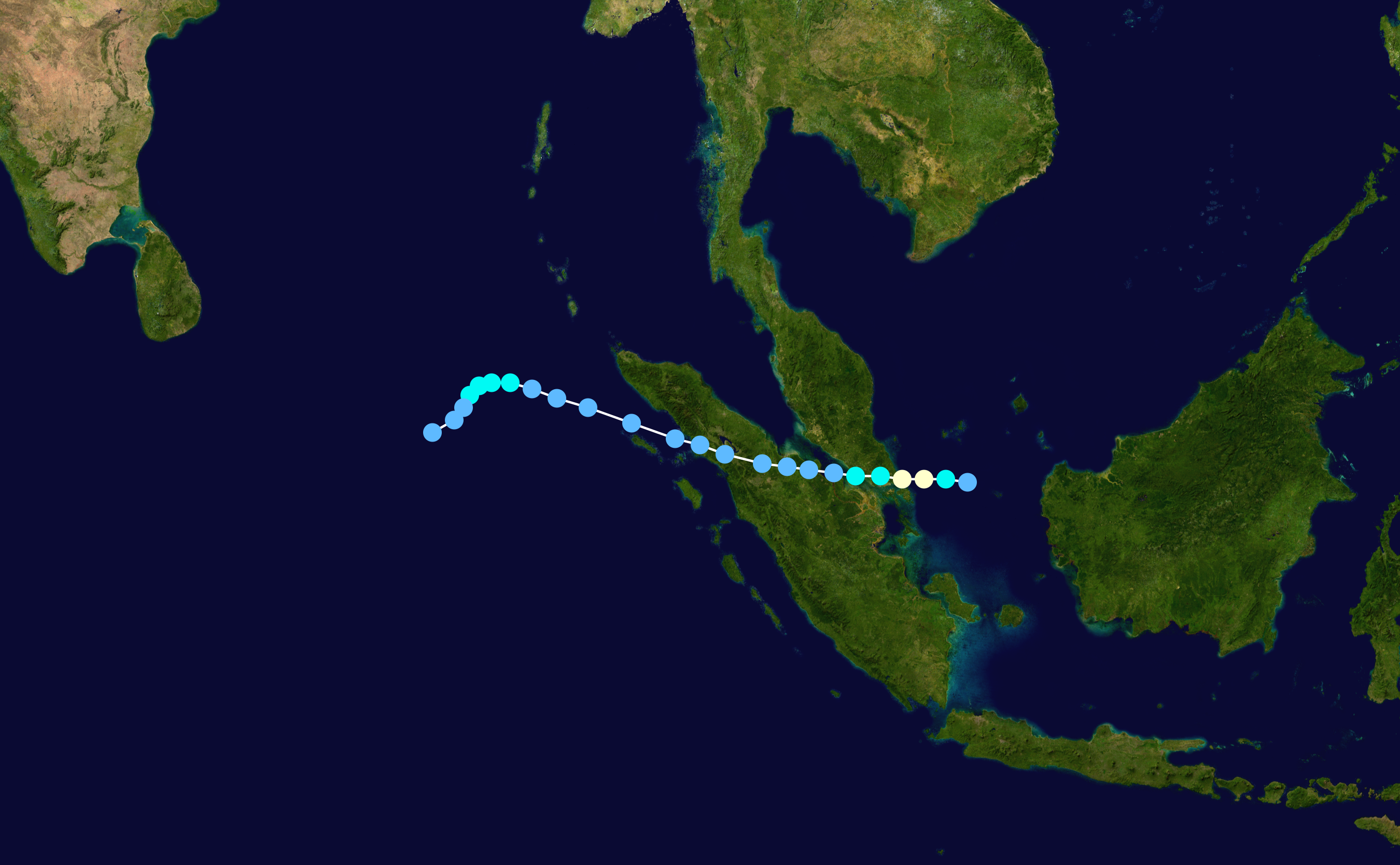 Track map of Tropical Storm Vamei of the 2001 Pacific typhoon season and the 2001 North Indian Ocean cyclone season. The points show the location of the storm at 6-hour intervals. The colour represents the storm's maximum sustained wind speeds as classified in the Saffir–Simpson scale (see below), and the shape of the data points represent the nature of the storm, according to the legend below. Saffir–Simpson scale Tropical depression≤38 mph≤62 km/h Category 3111–129 mph178–208 km/h Tropical storm39–73 mph63–118 km/h Category 4130–156 mph209–251 km/h Category 174–95 mph119–153 km/h Category 5≥157 mph≥252 km/h Category 296–110 mph154–177 km/h Unknown Storm type Tropical cyclone Subtropical cyclone Extratropical cyclone / Remnant low / Tropical disturbance / Monsoon depression